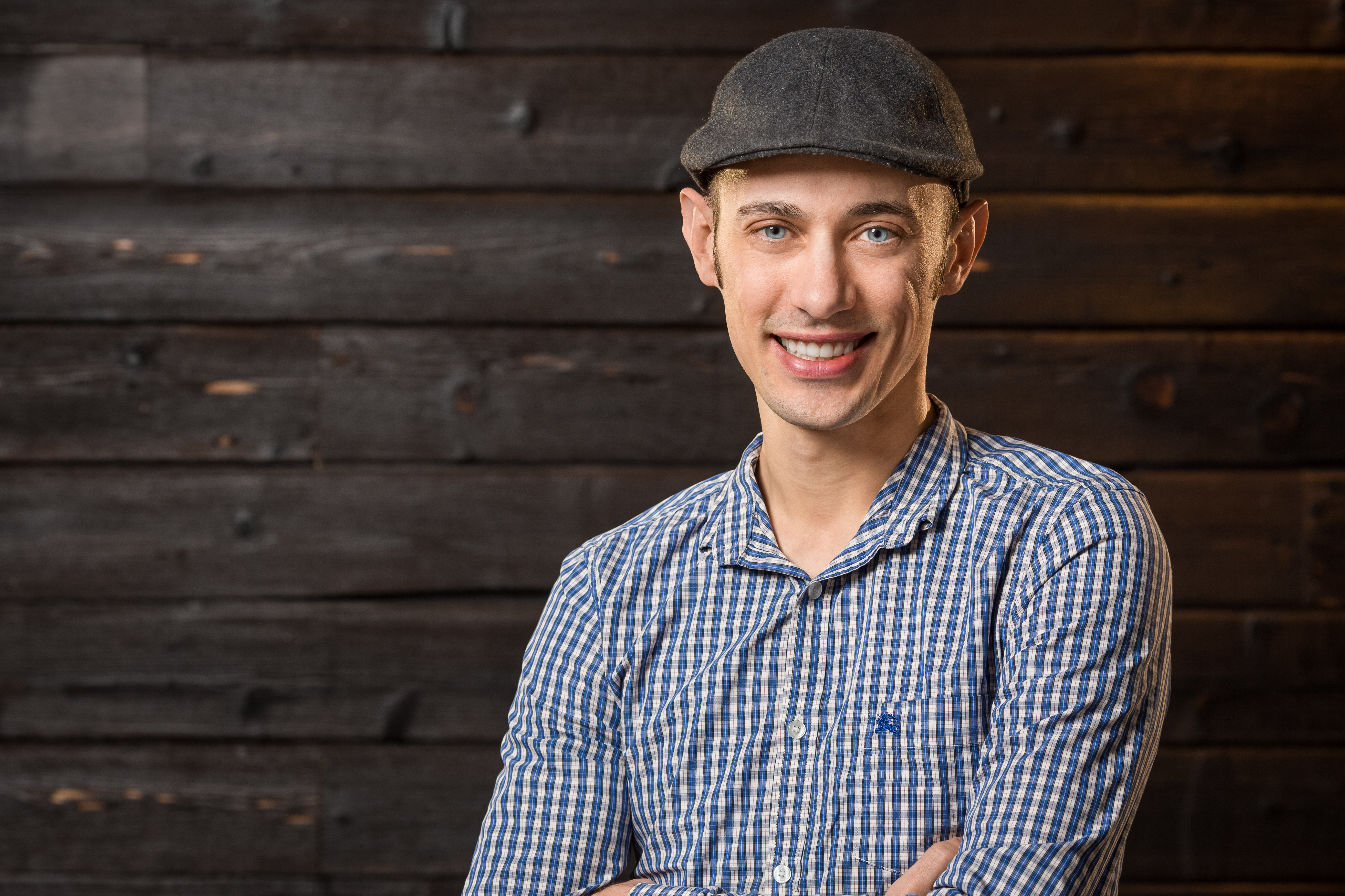 Tobias Lütke, Shopify 2015